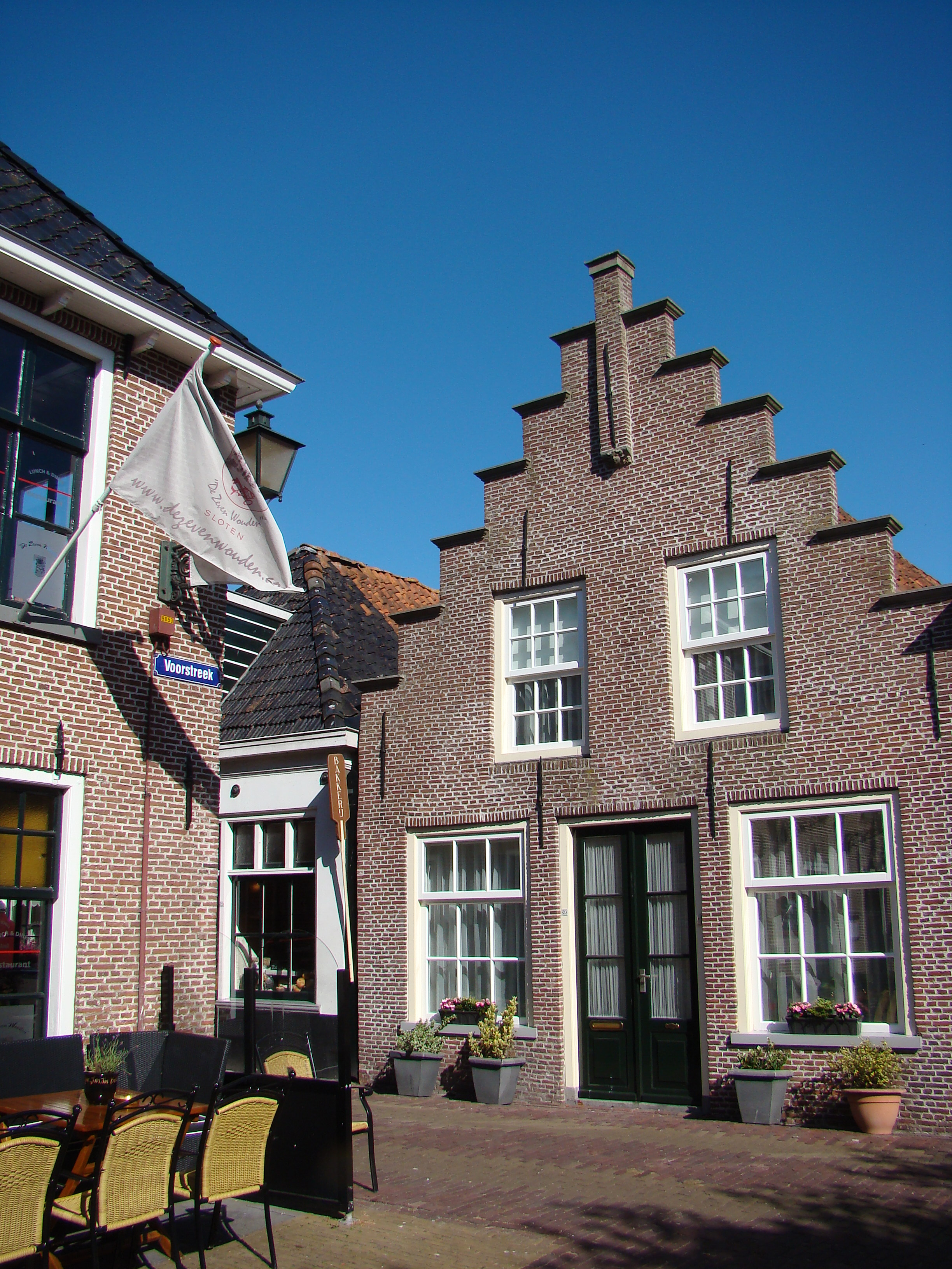 Monumental building of Sloten, Netherlands